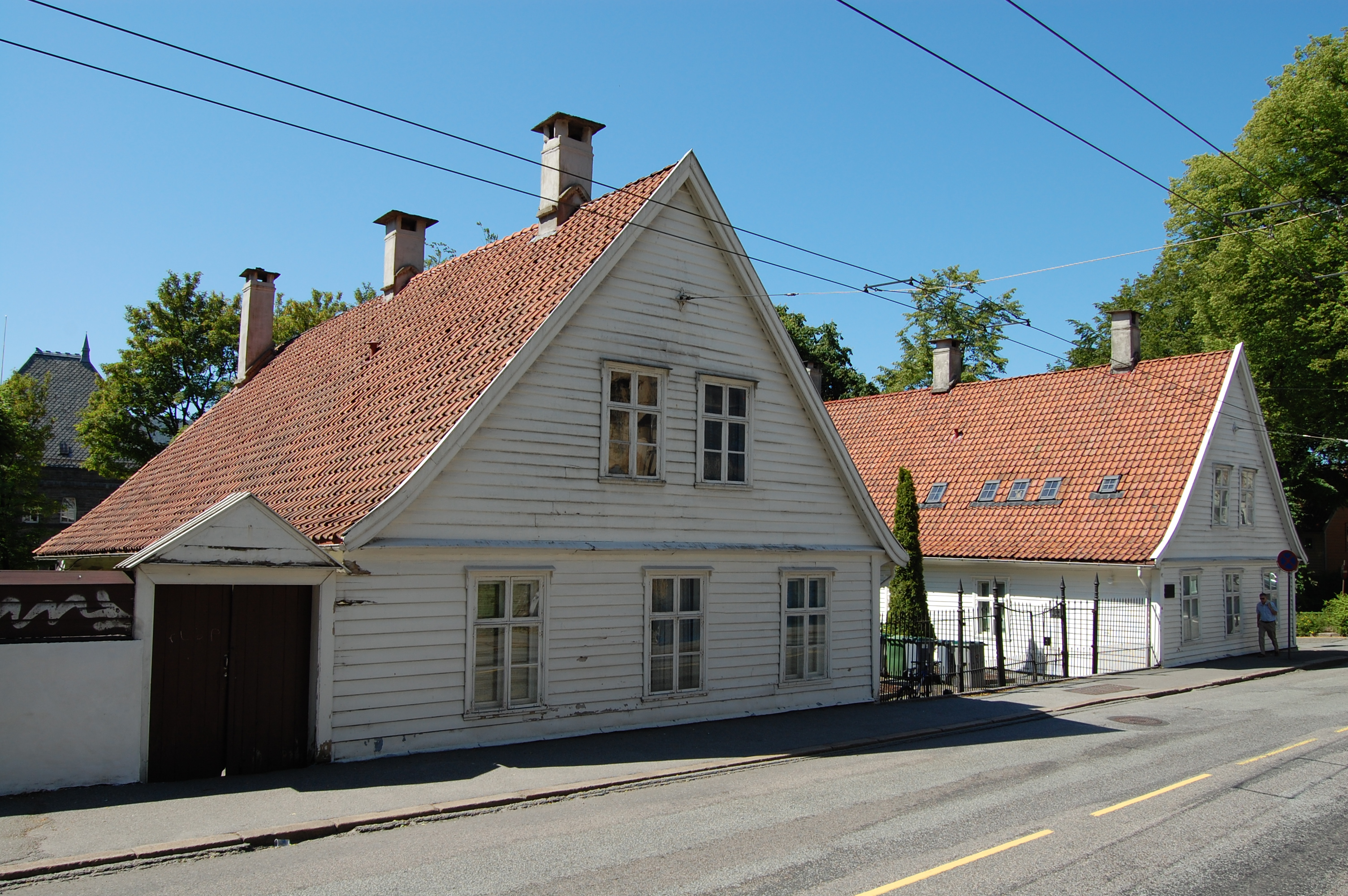 Zander Kaaes stiftelse, Bergen, Norway.